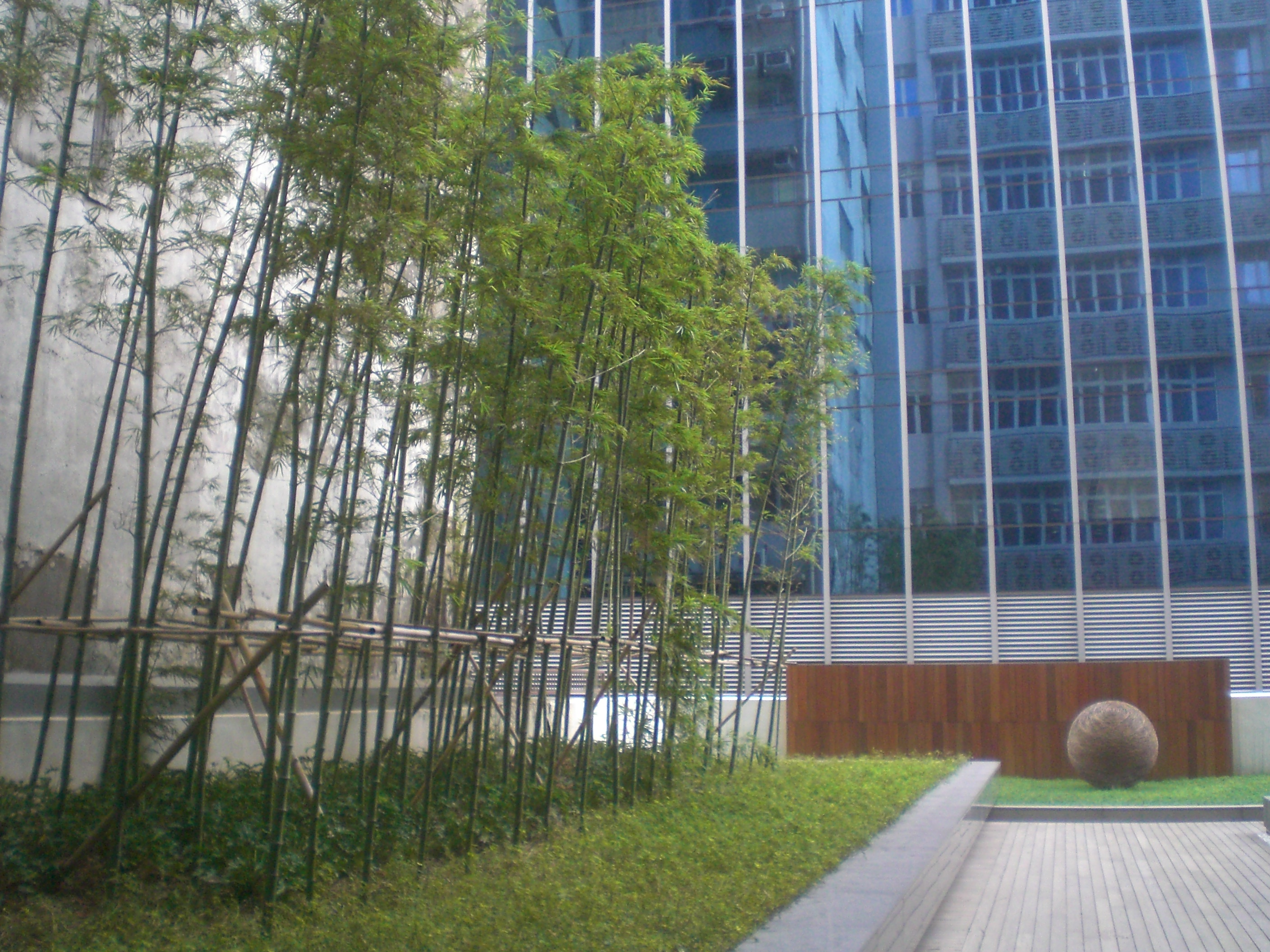 zh:2010年zh:觀塘區 宏利金融中心